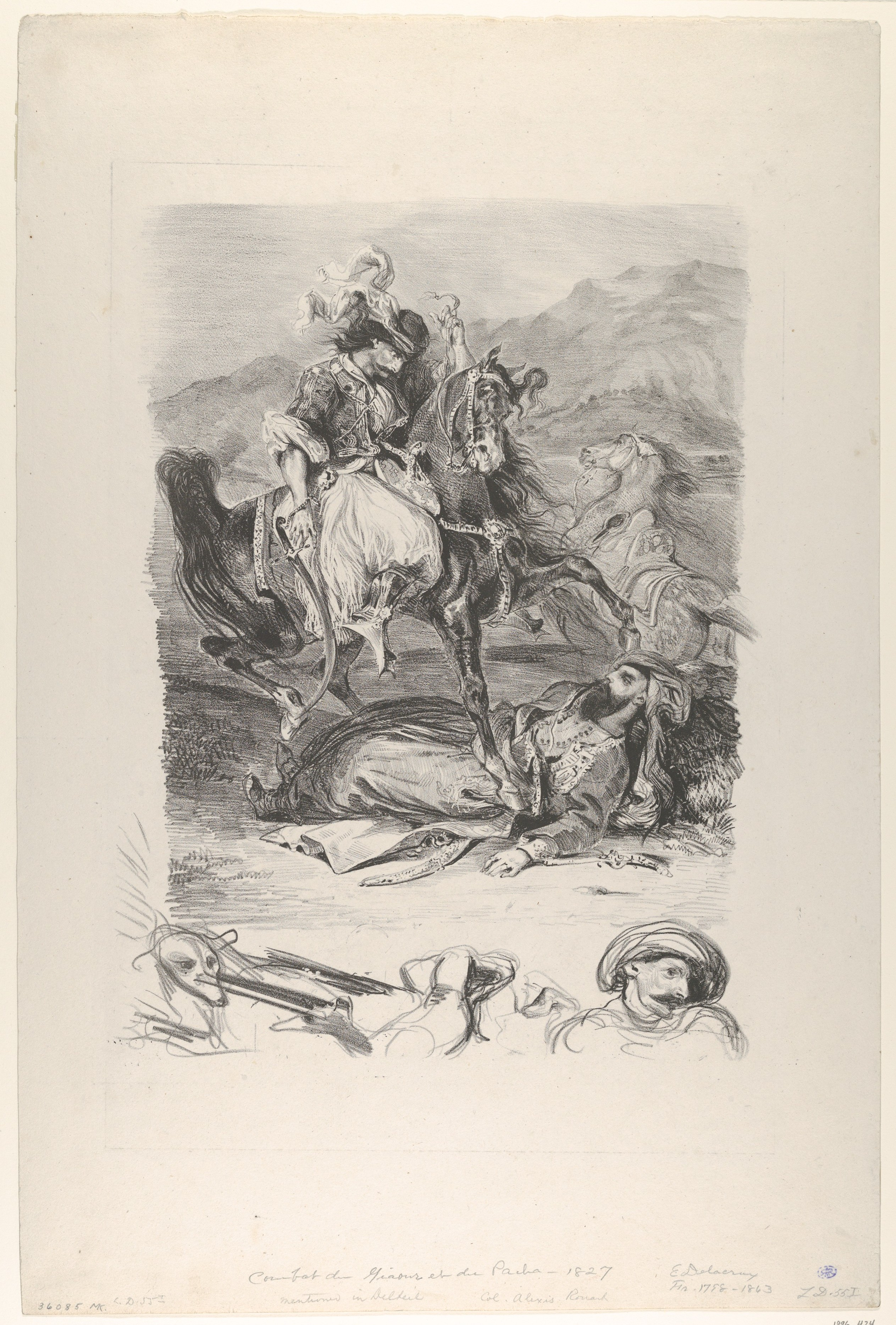 Print; Prints